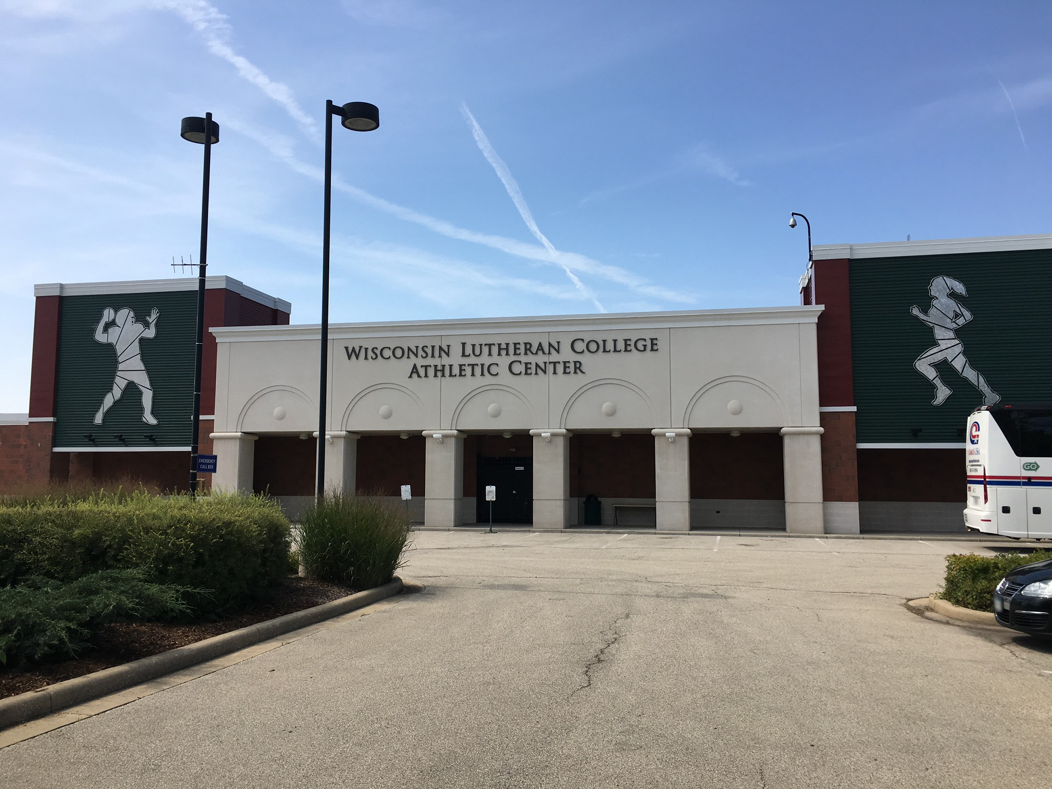 This image shows the outside of the Wisconsin Lutheran College Athletic Center.